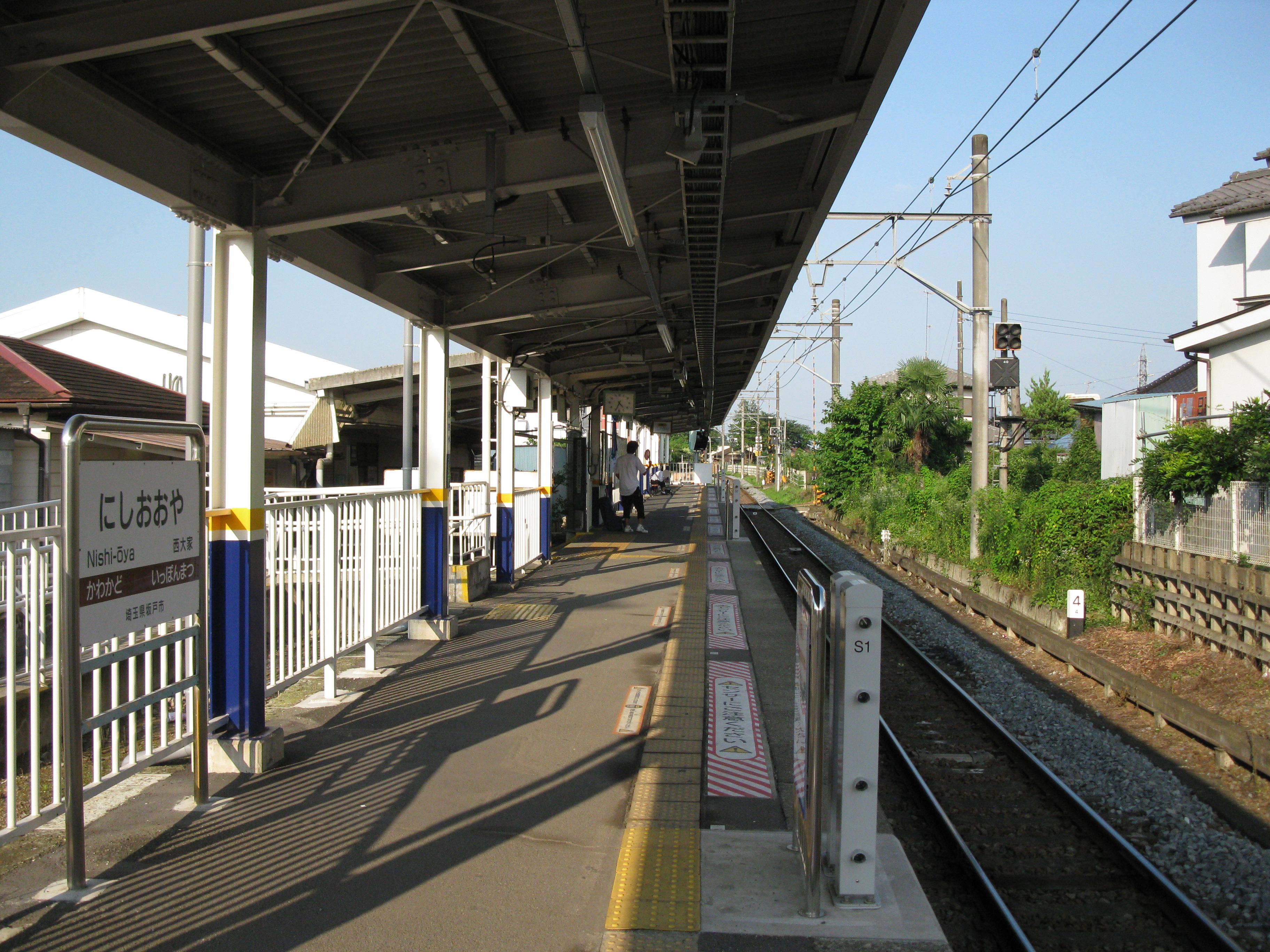 Platform of Nishi-Ōya Station on the Tobu Ogose Line in Saitama